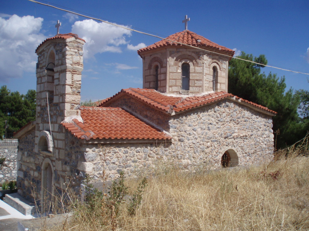 Prophet Elijah Tsatsaris monastery in Asopia, Greece